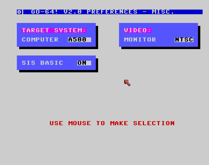 The Misc preferences for the Go-64! version 2.0 software.